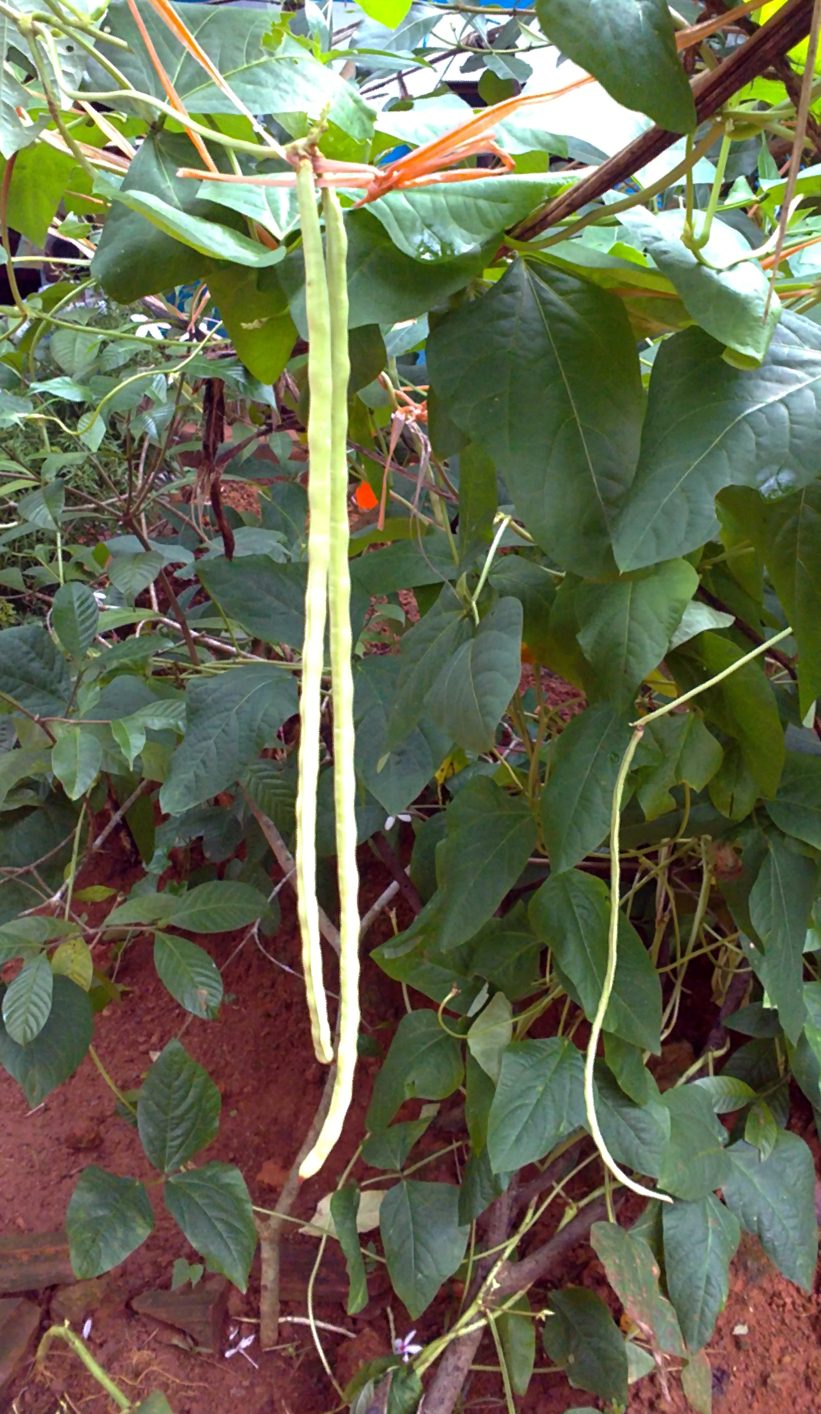 18seed Vigna unguiculata sesquipedalis